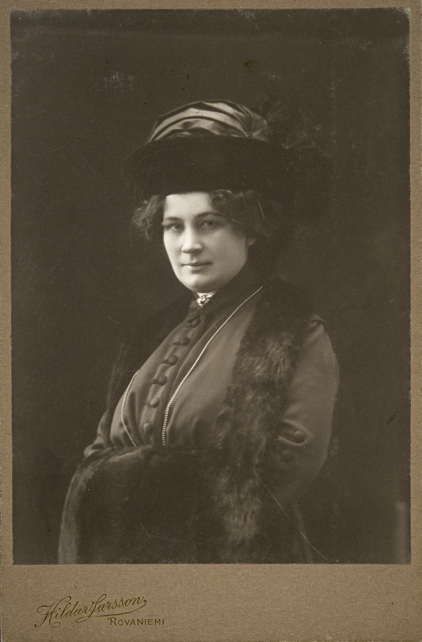 The Finnish actress Naimi Kari in 1913